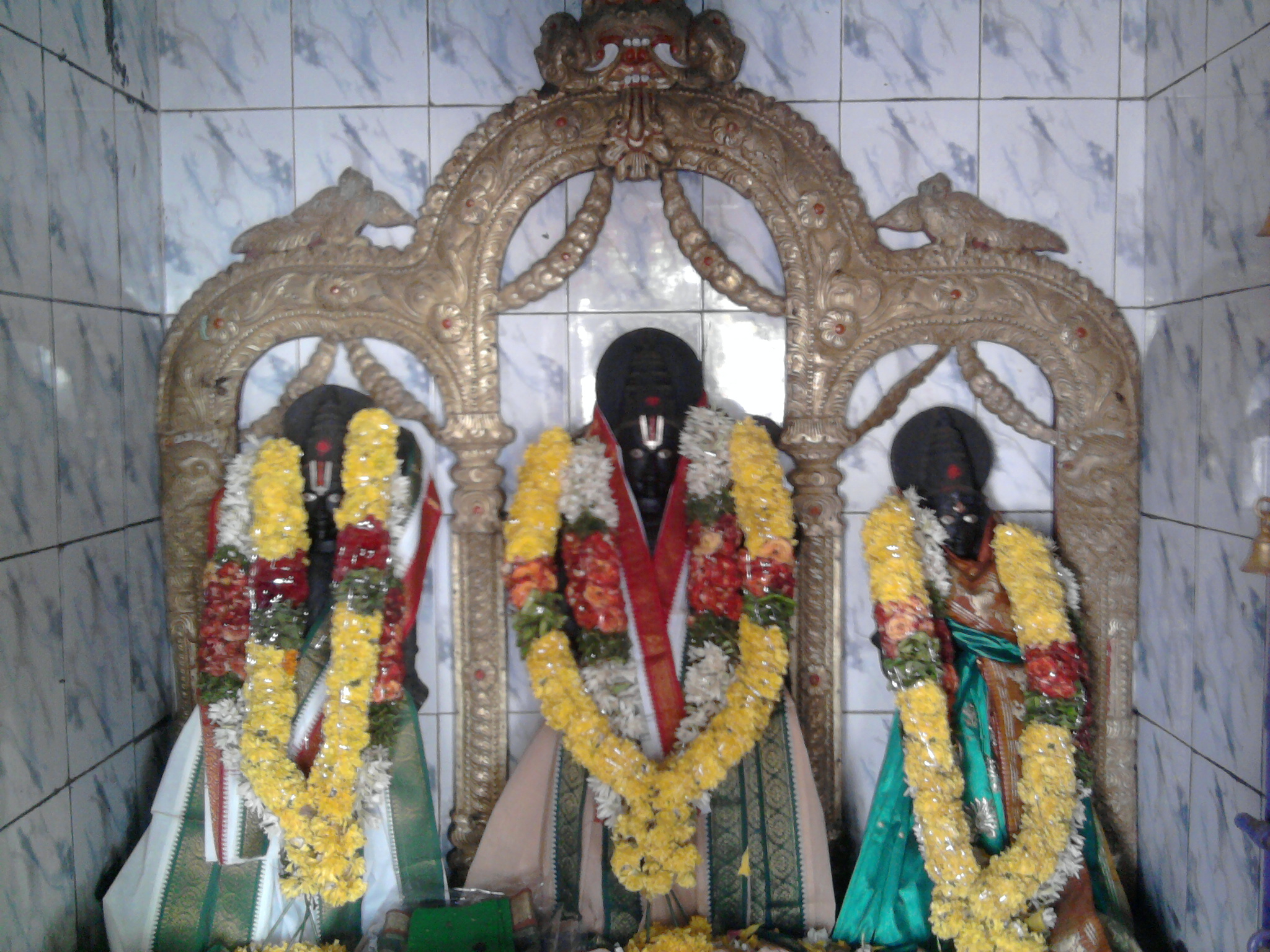 Makara thorana